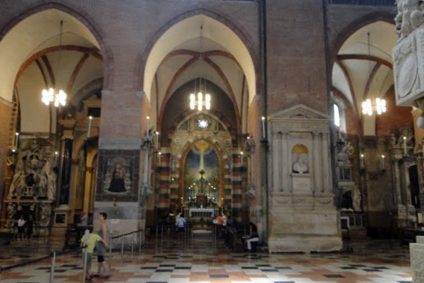 Basilica of Saint Anthony of Padua